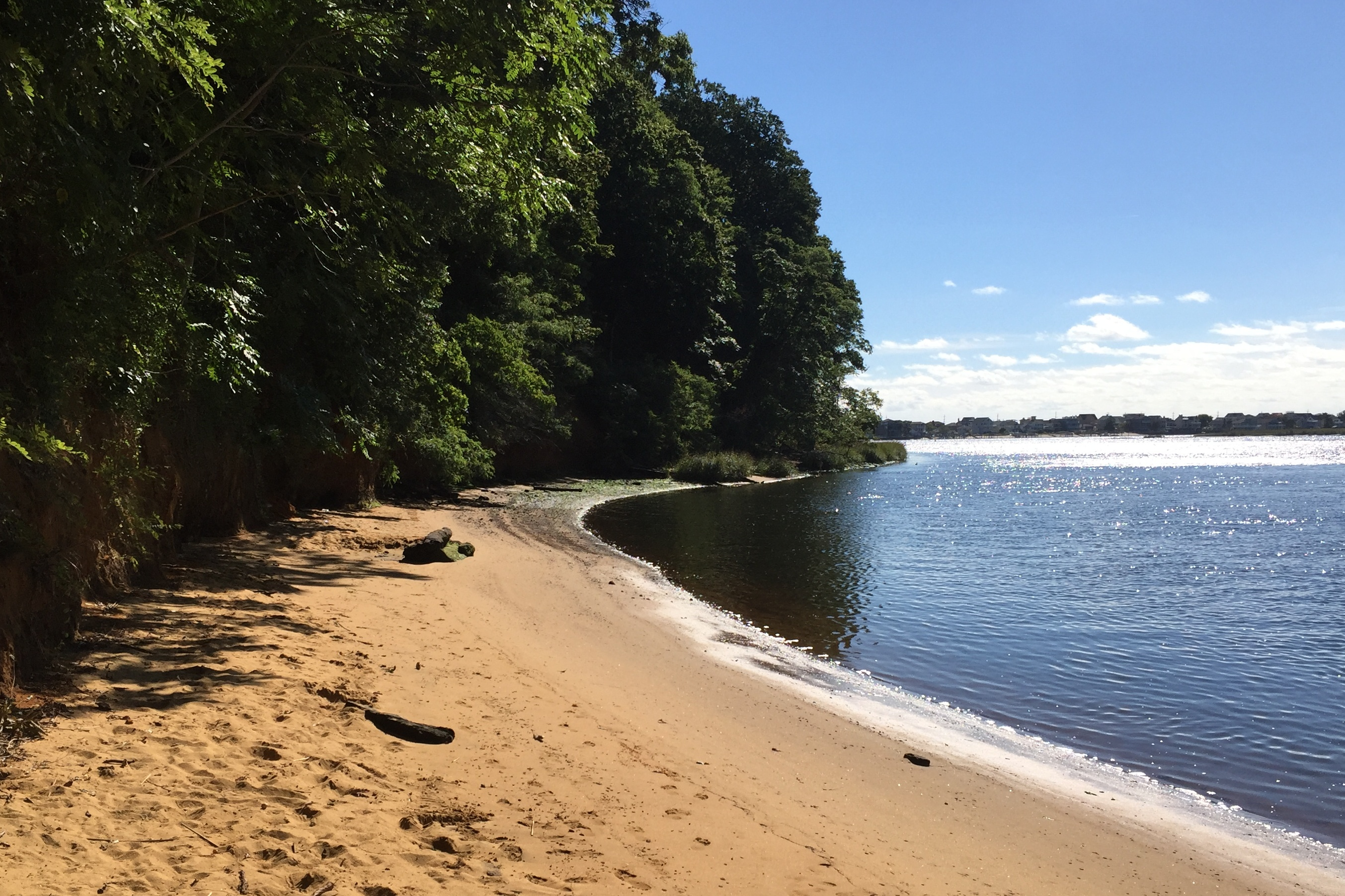 Beach along the Navesink River at Black Fish Cove of the Hartshorne Woods Park in Monmouth County, NJ.